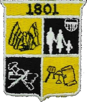 Coat of arms of Rockville, Maryland (1976)